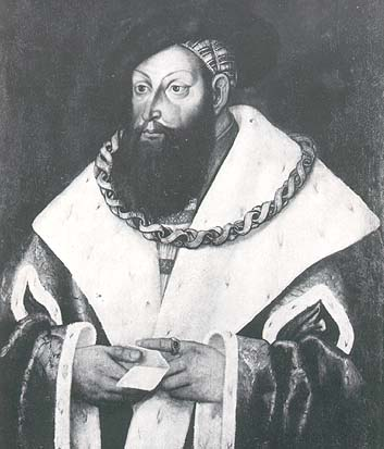 Portrait of George, Duke of Bavaria (1455-1503)